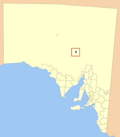 Map of South Australia showling the location of the Roxby Downs Local Government Area. A modification of GDFL map by Astrokey44; found here: File:SA_LGA_blank.png